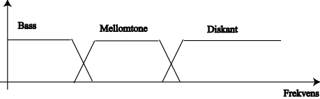 Audio spectrum split into three subbands.